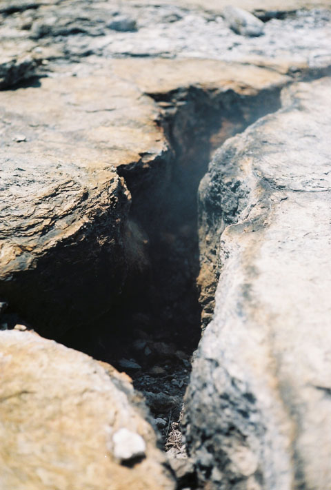 This is an active fumarole or solfatara — on the south end of the fissure at Steamboat Springs, Nevada.